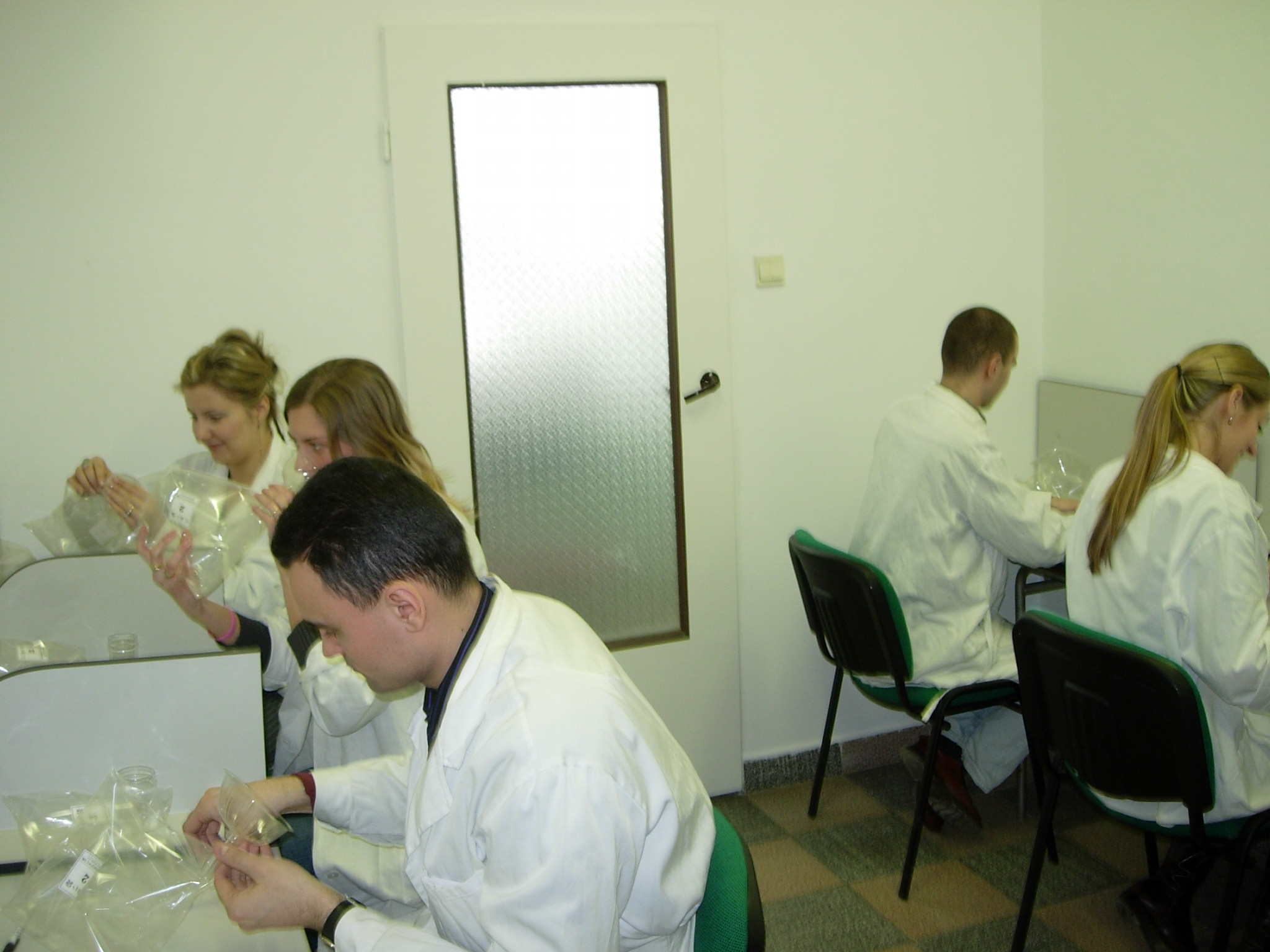 Triangle_Odor_Bag_Test w ZUT -Szczecin